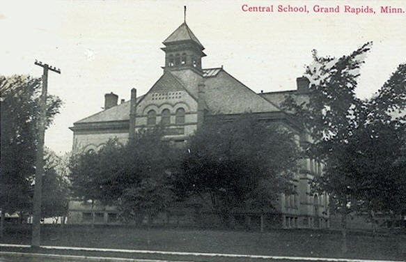 Central School